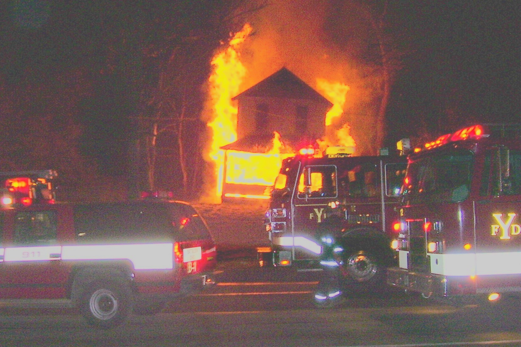 Burning house and fire engines at Youngstown, Ohio, USA